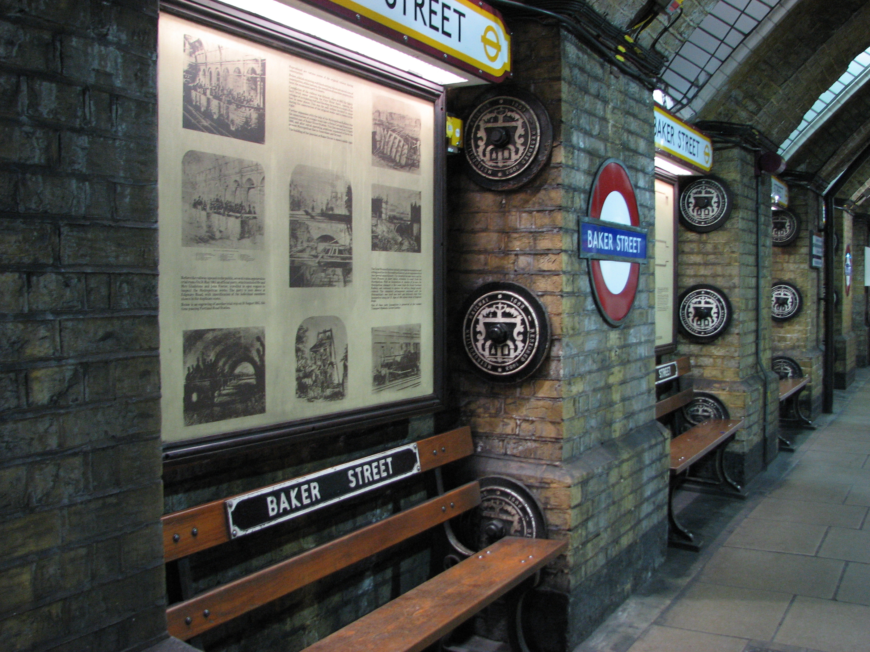 London - September 2008